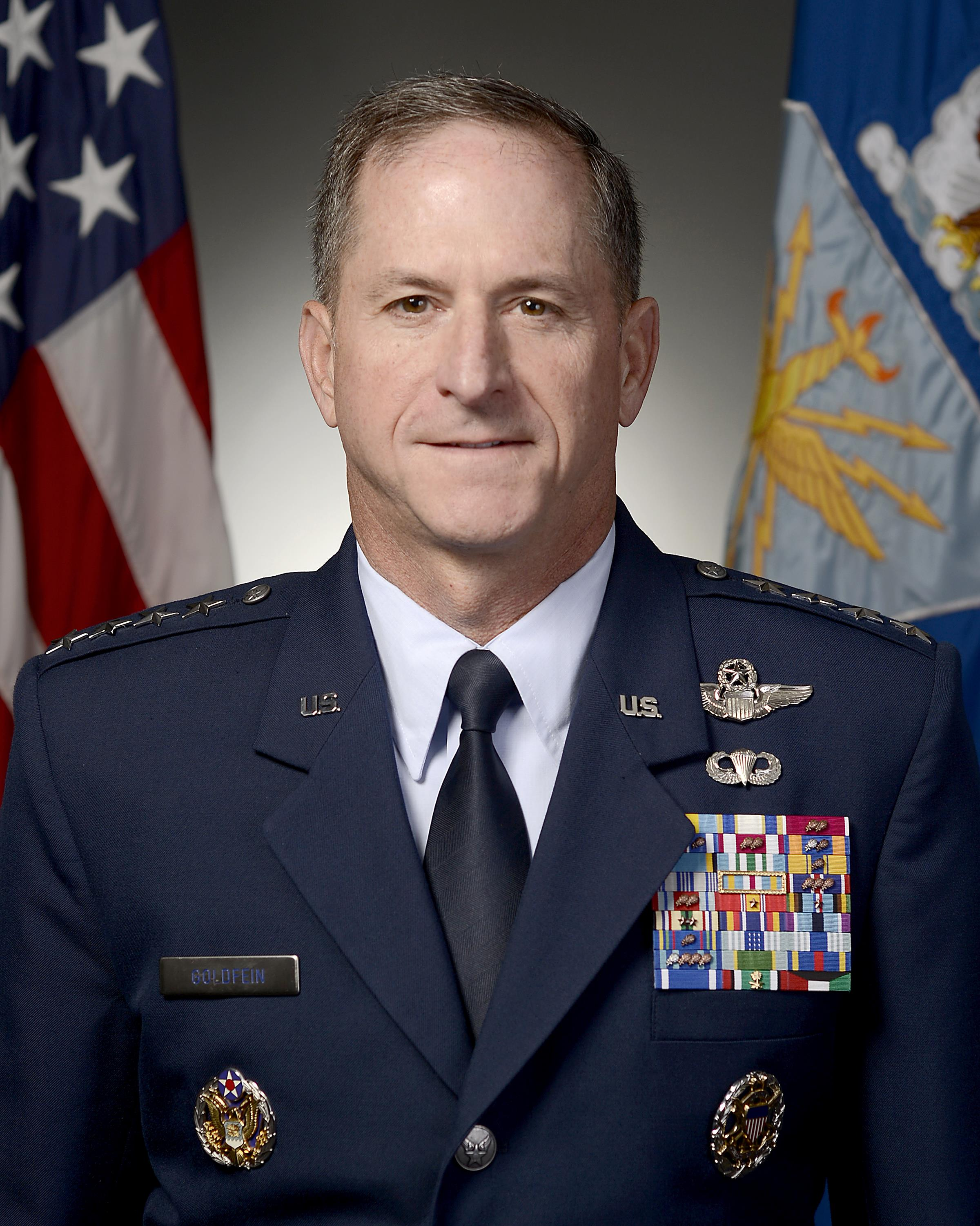 Gen. David L. Goldfein is Vice Chief of Staff of the U.S. Air Force